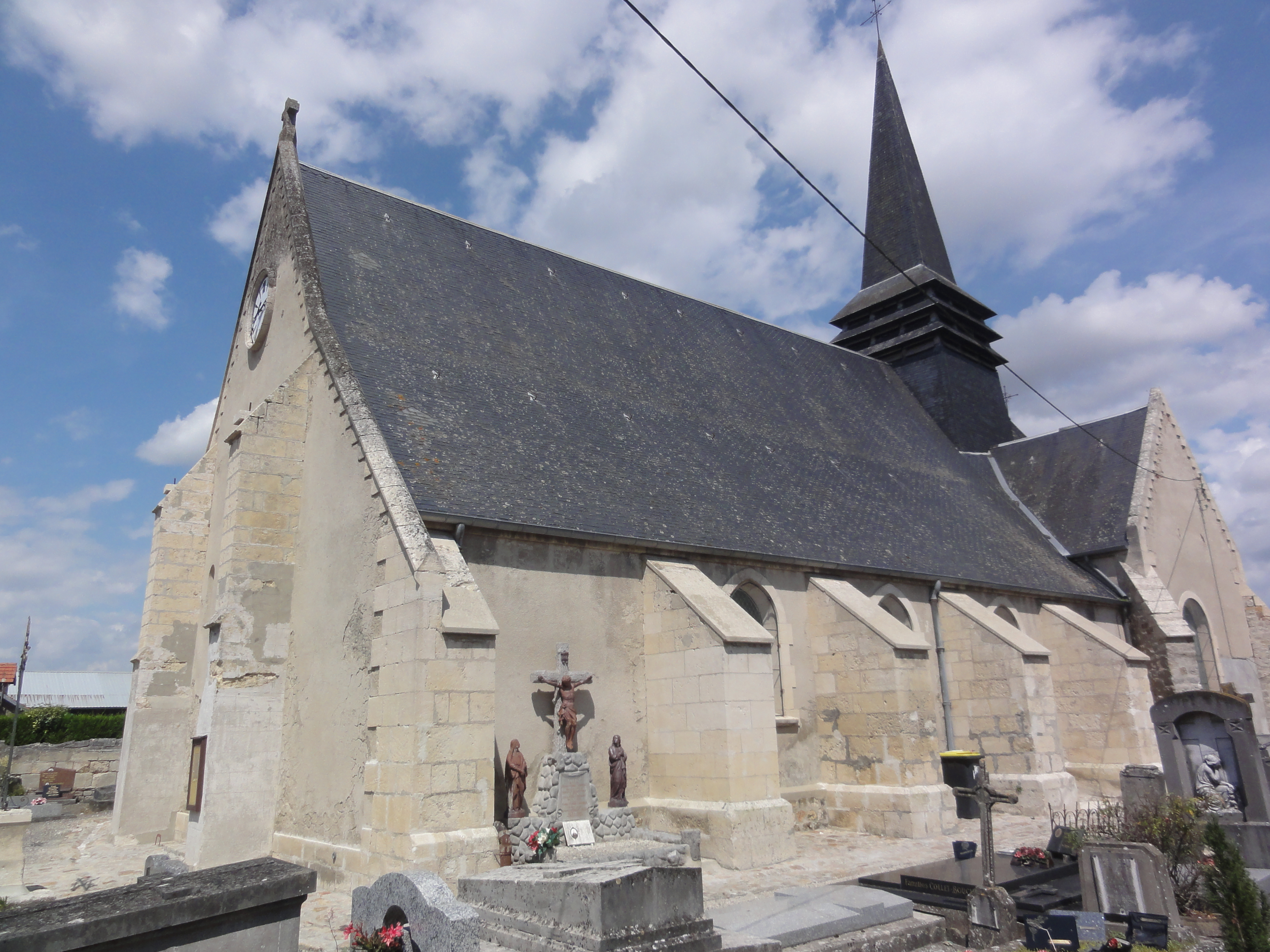 Marest-Dampcourt (Aisne) église à Marest